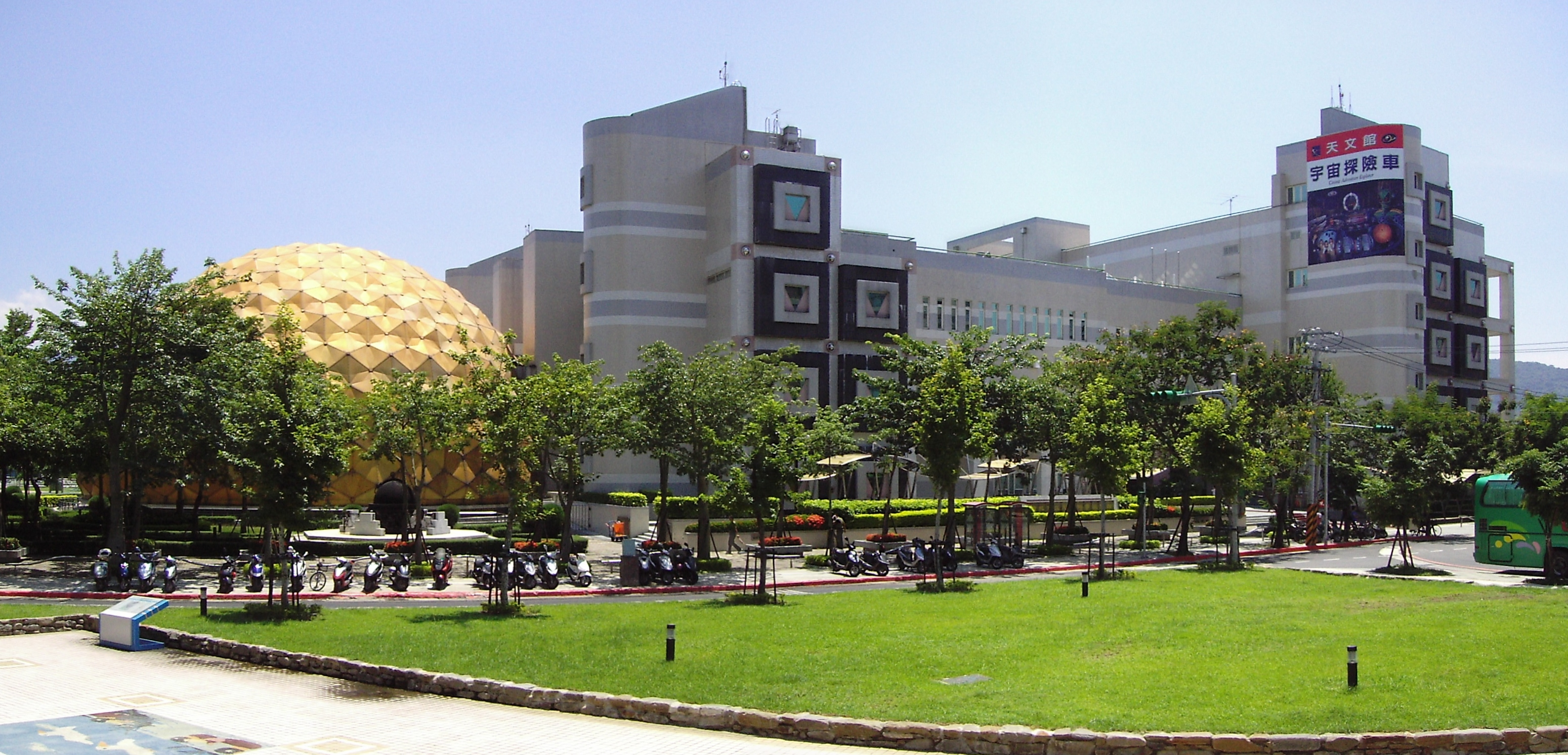 Meilun Park and Taipei Astronomical Museum. 中文（台灣）: 美崙公園與臺北市立天文科學教育館。